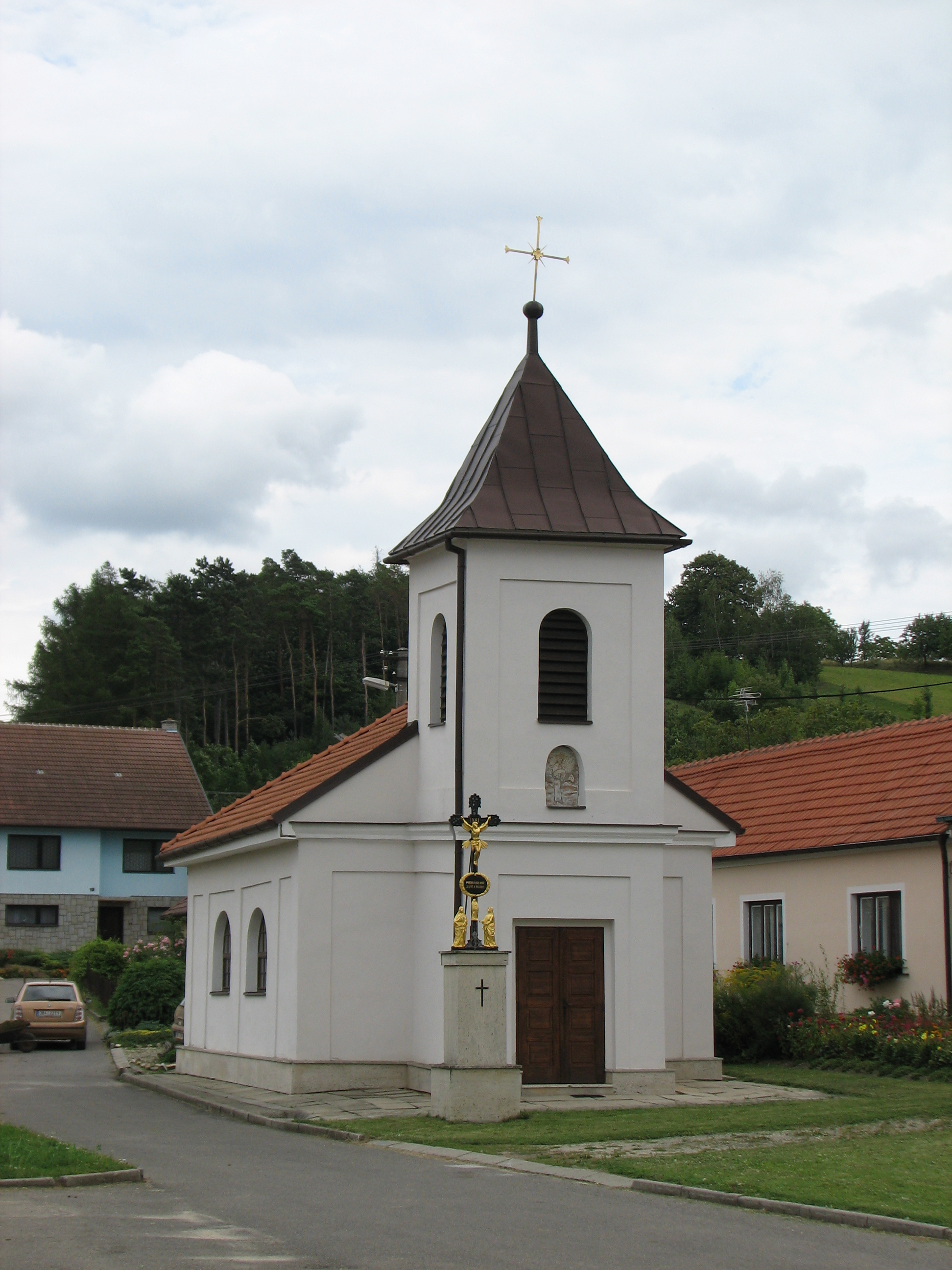 Nechvalín - St. Catherine's chapel